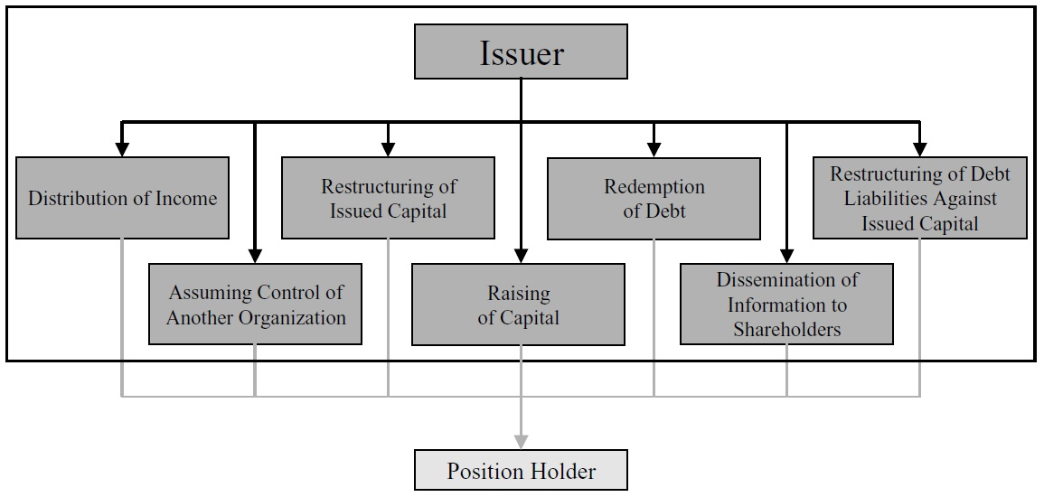 The Image describes the Purpose Of Corporate Actions, in a table manner. This file is to be used in Corporate action labels. Other information This is a table of purpose of the corporate events.